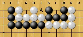 双活棋形